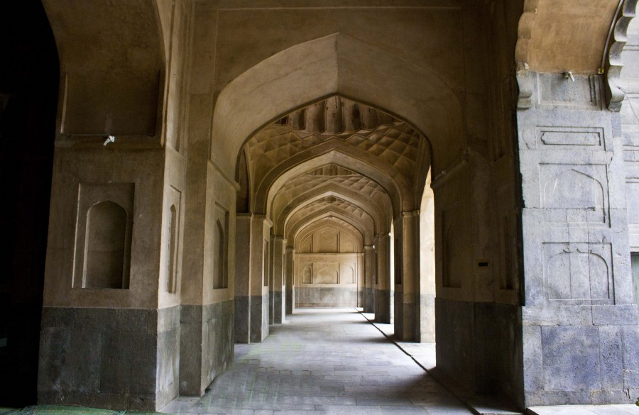 Pathar Masjid is situated in Old Zaina Kadal area in Srinagar, Jammu and Kashmir, India. This mosque is locally known as Naev Masjid and built by Mughal Empress Nur Jahan the wife of Emperor Jahangir, in 1623 AD, constructed under the supervision of Mughal historian and architect Malik Hyder Chaudhary.